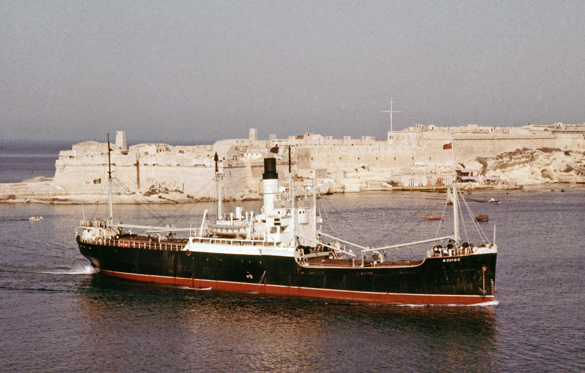 The N3 cargo ship "Rovigo" entering Grand Harbour, Malta, June 1962. Photo scanned from an old Ektachrome slide that had acquired a purple tinge and was very dusty.